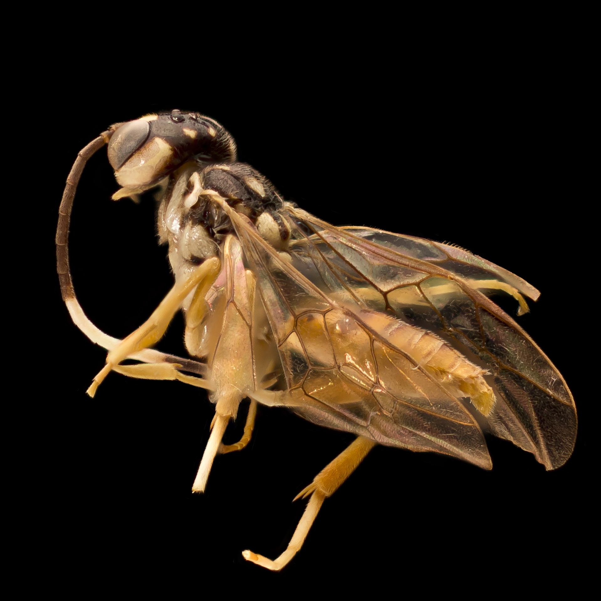 A hyper parasite! These ladies lay thousands of eggs on the margin of leaves. The eggs sit there until they are eaten by a caterpillar. Then they stay dormant until that caterpillar is parasitized by something else. The larvae then hatches and parasitizes the parasite!